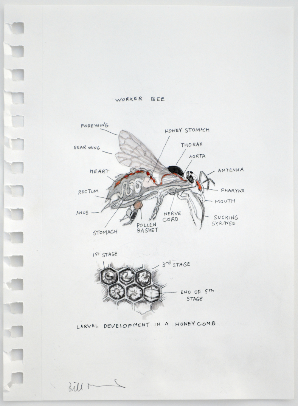 watercolour